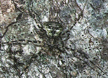 female Hersilia okinawaensis from Okinawa.